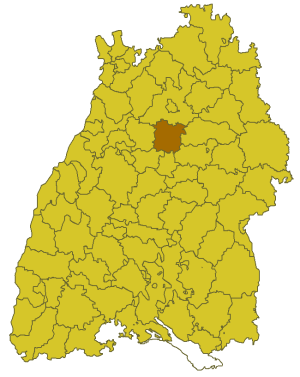 Map of Baden-Württemberg with the former county of Ludwigsburg before 1973